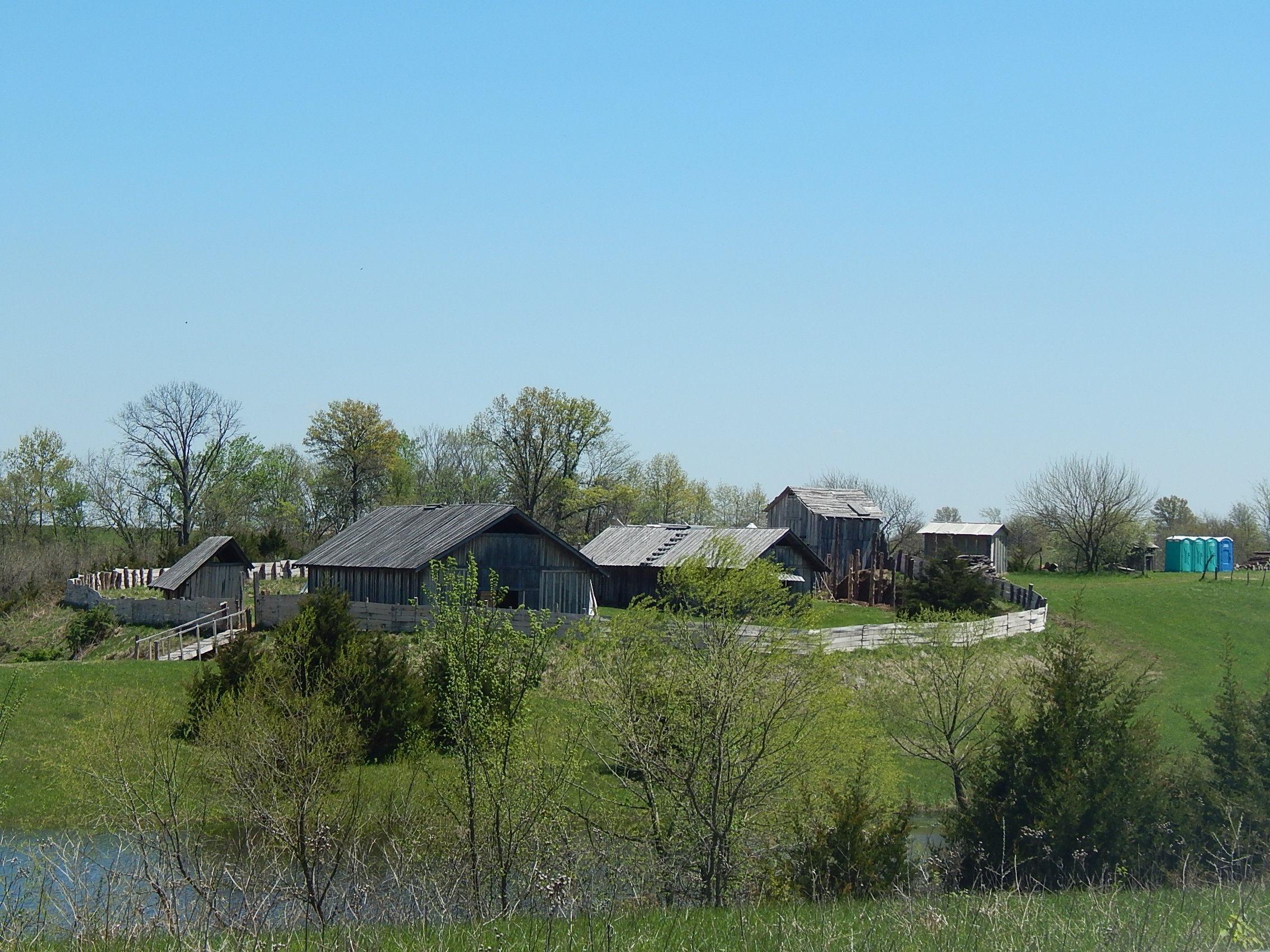 Recreation of a Dark Ages/Early Medieval fortification from Northern Europe